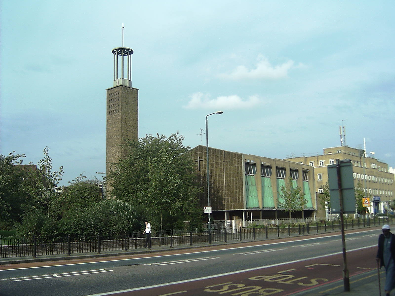 Trinity Independent Chapel. My own photo taken in Aug/Sept 2006